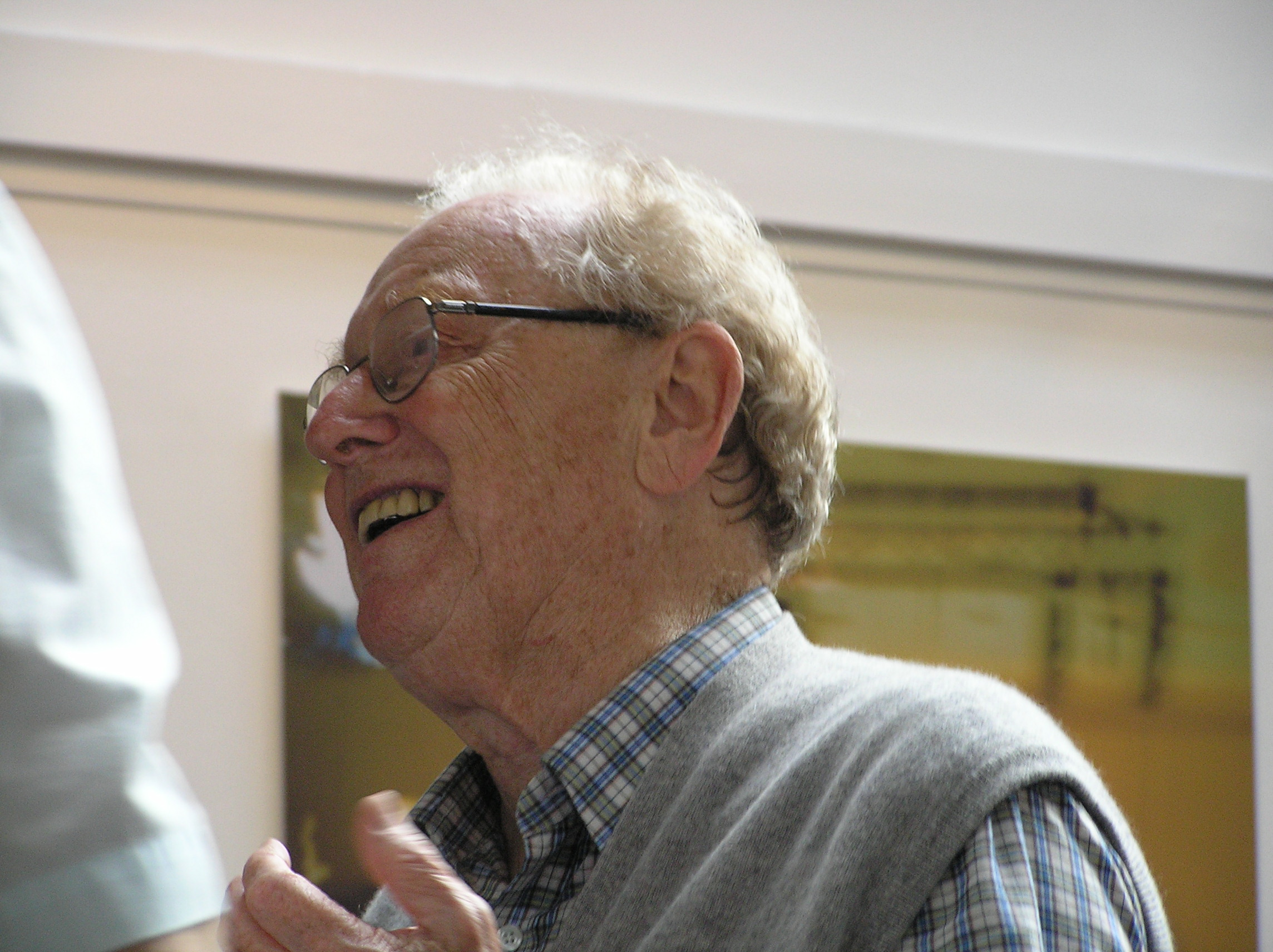 Sir Charles Mackerras. The photo was taken on 2 October 2005, backstage at the Usher Hall in Edinburgh, during rehearsals for the opera Fidelio with the Scottish Chamber Orchestra and chorus, which Mackerras had chosen to conduct as part of his 80th birthday celebrations. The opera was performed in concert at the Usher Hall and in London at the Barbican.